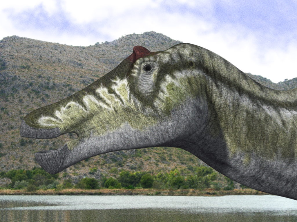 Prosaurolophus maximus restoration, • Created using the skull reconstructions in the original description as reference. (Fig. 1 and 3 in Brown 1916). According to Lull and Wright (1942), the muzzle was restored too long in its original description. This has been corrected for. • The colours and/or patterns, as with nearly all reconstructions of prehistoric creatures, are speculative. NOTE: I often update my images. If you want to have any of my images on a website, please (if possible) don’t host/save it to the website server. I’d prefer it if the image's Wikimedia URL is used. This means that if I update an image, it will be updated on the site as well. Thanks.